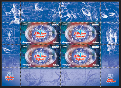 Stamp of Belarus